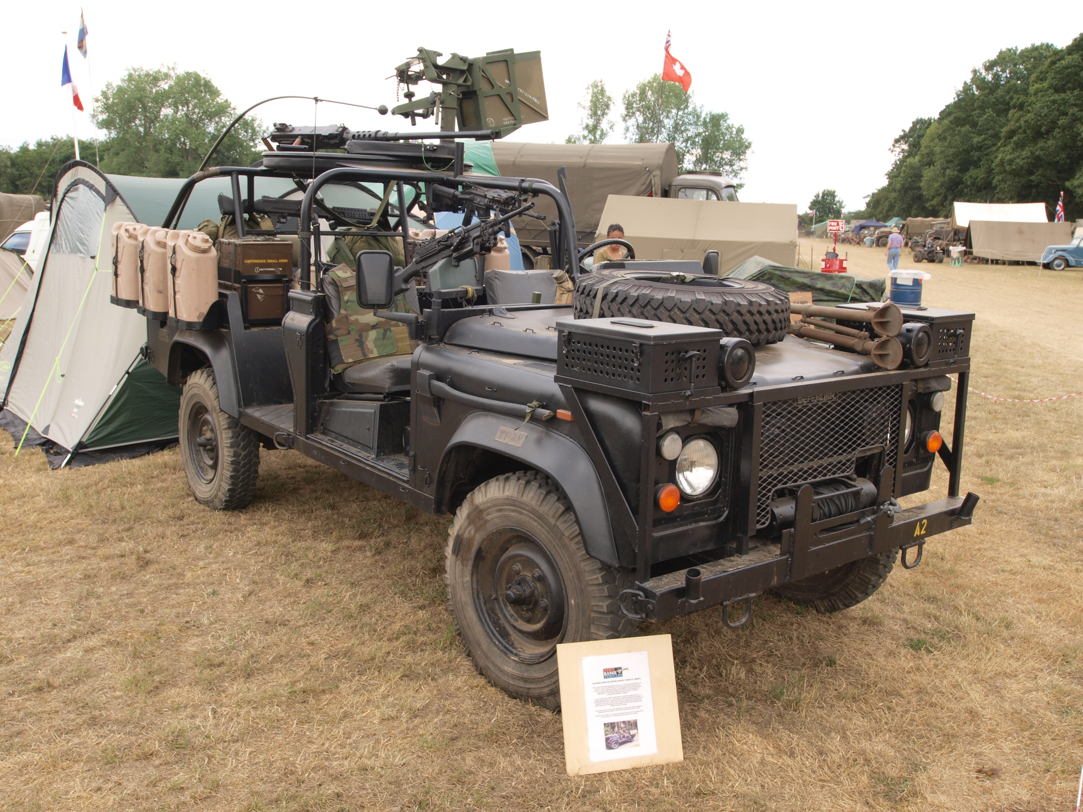 Land Rover, Ranger Special Operations Vehicle (RSOV) (replica).